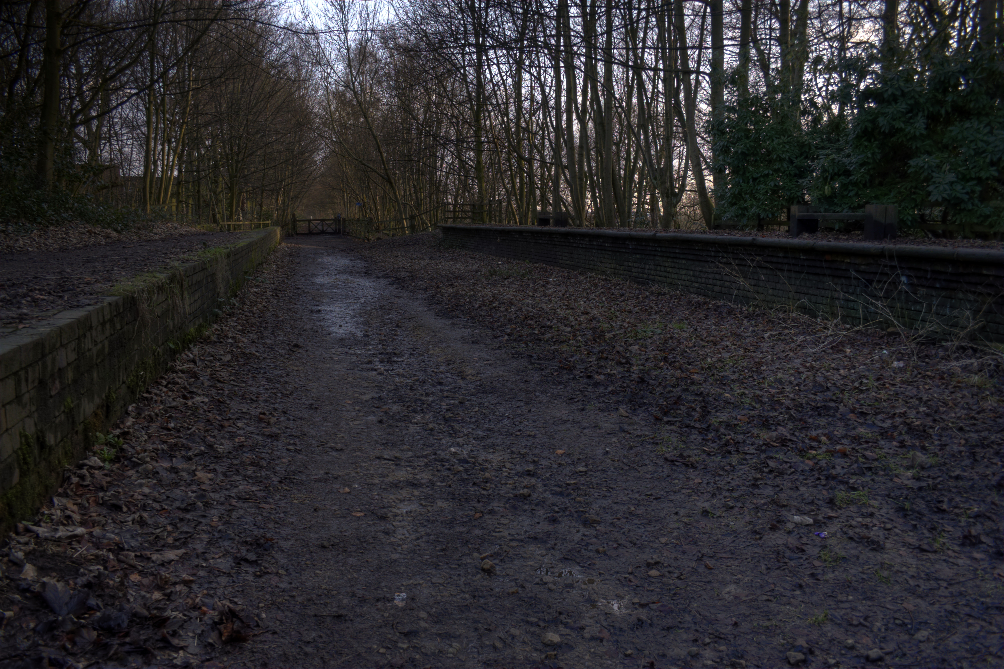 The remains of Worsley Railway Station, looking south along the path of the line.